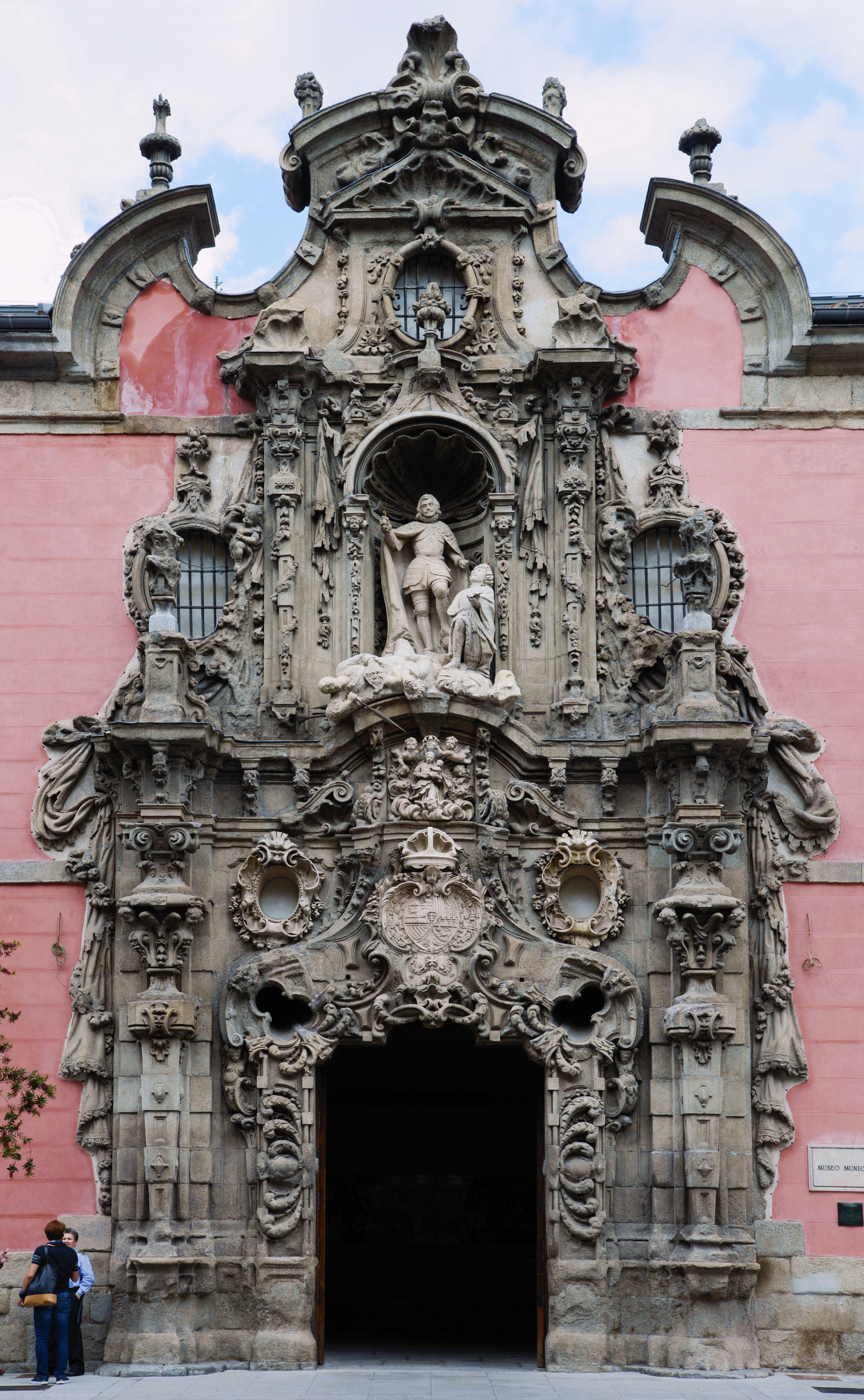 Main portal of the Museo de História de Madrid, former Real Hospicio de San Fernando